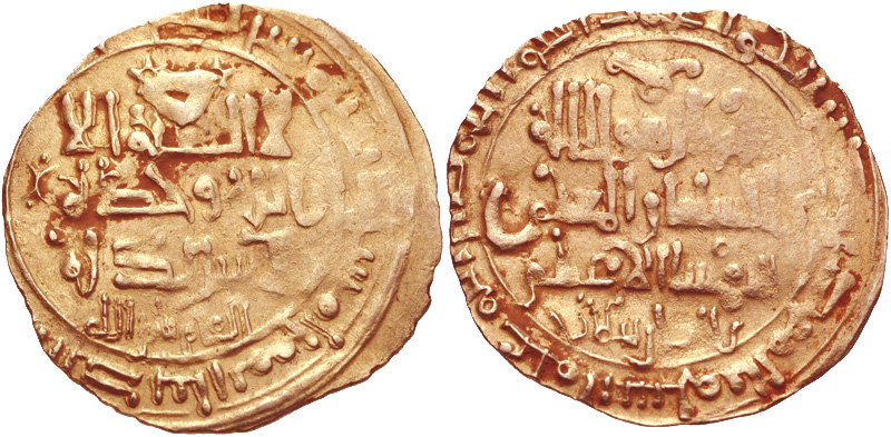 ISLAMIC, Seljuks. Great Seljuk. Muhammad Alp Arslan. AH 455-465 / AD 1063-1072. AV Dinar (22mm, 1.90 g, 7h). Herat mint. Dated AH 462 (AD 1069/70). Kalima / Name of Alp Arslan with the title Shahinshah. Album 1671. VF, areas of flat strike.